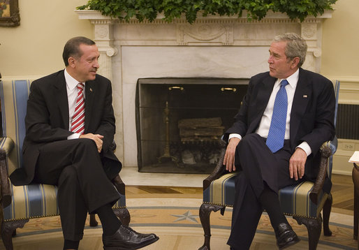 President George W. Bush meets with Prime Minister Recep Tayyip Erdoğan of Turkey Monday, Nov. 5, 2007, in the Oval Office. (White House photo by Joyce N. Boghosian)